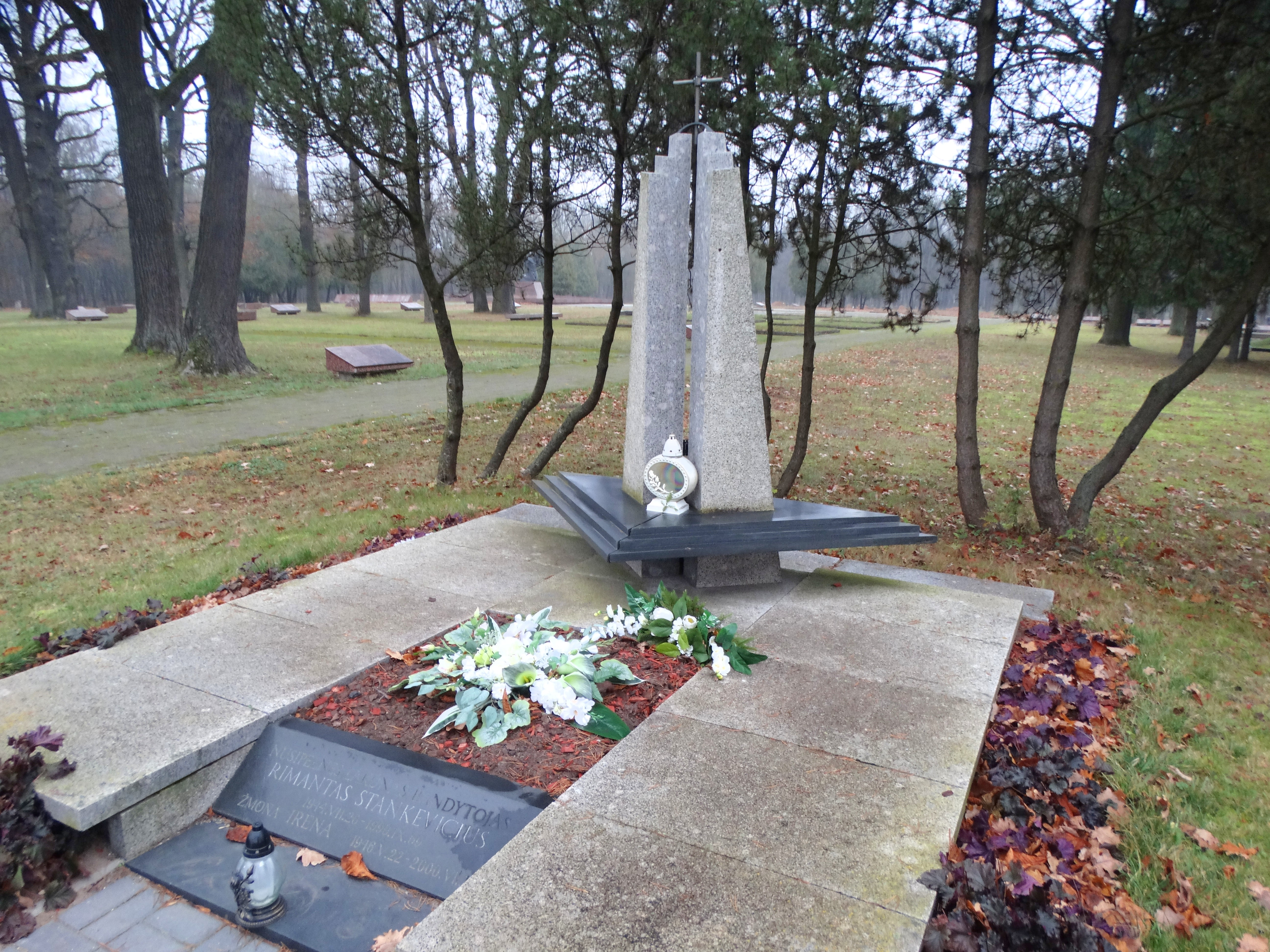 Tomb of Rimantas Stankevičius, military cemetery in Aukštieji Šančiai, Kaunas, Lithuania